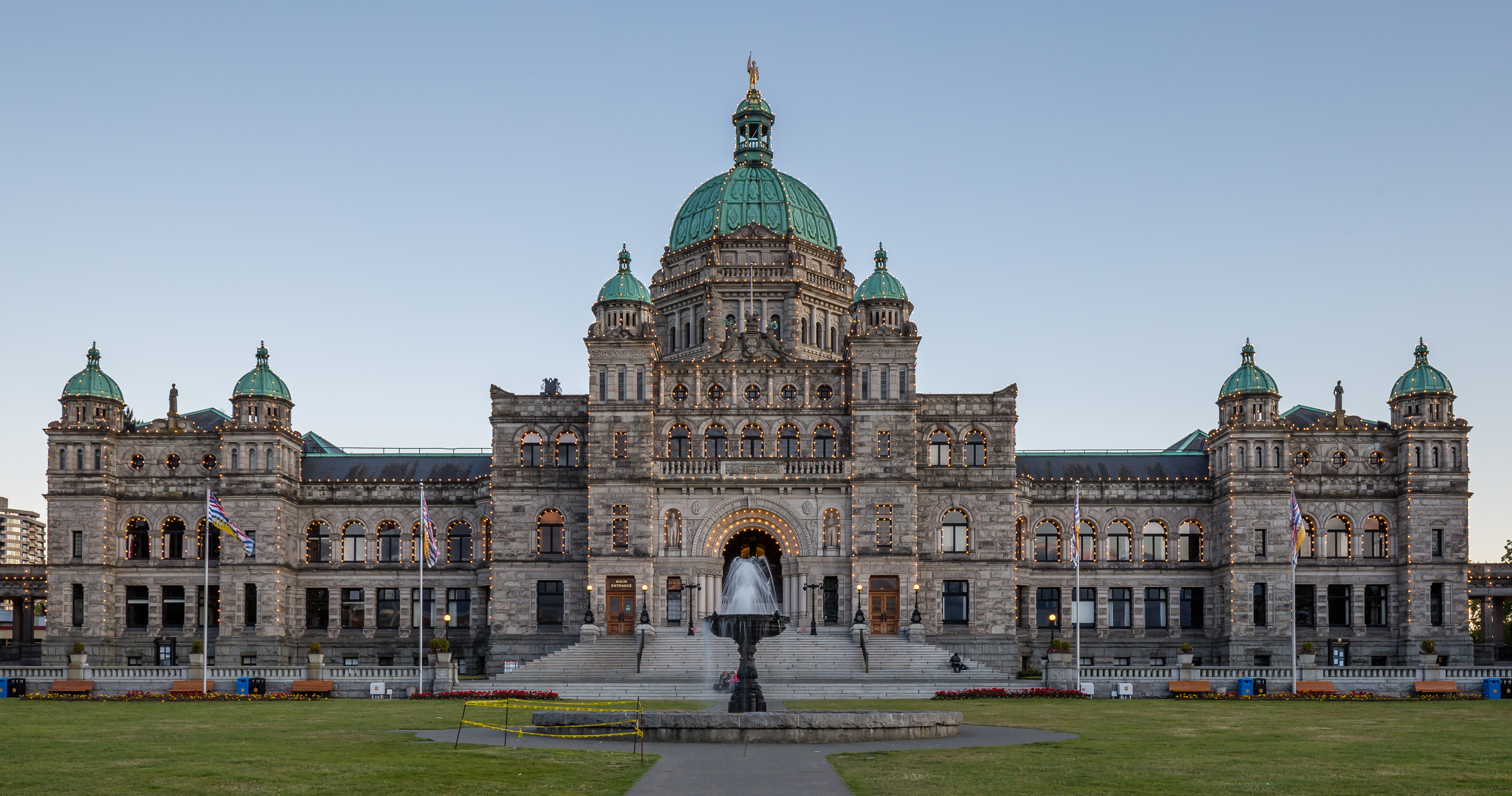 British Columbia Parliament Buildings, Victoria, British Columbia, Canada